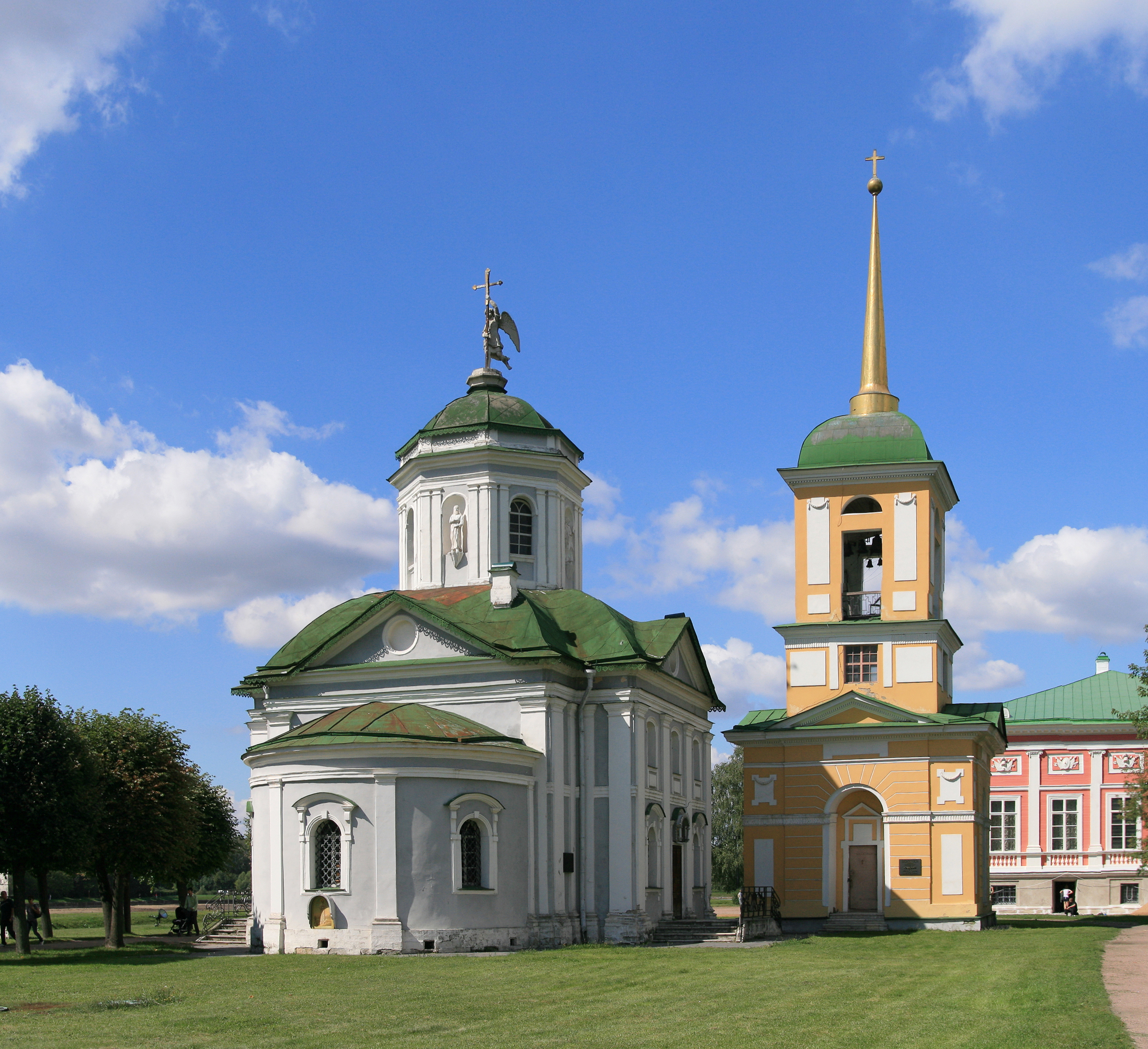 The Church of the Merciful Saviour (1737-1739) and Bell Tower (1792), Kuskovo Estate, Moscow